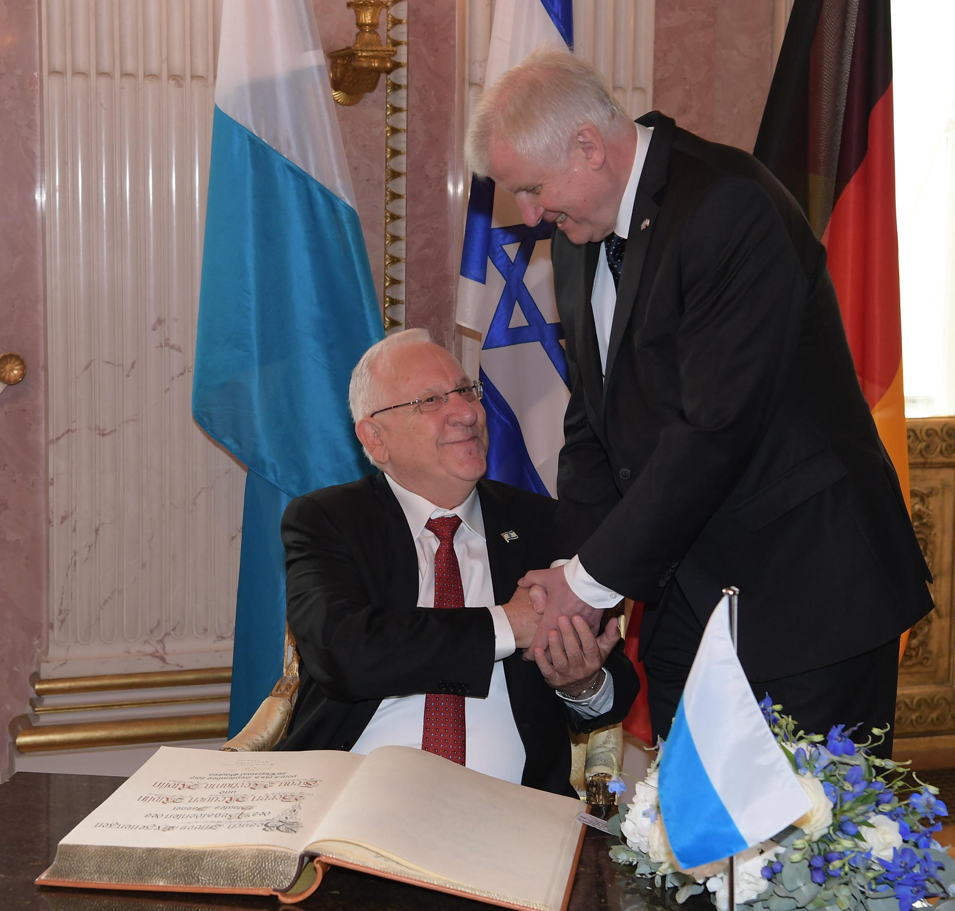 Reuven Rivlin at a meeting with Bavarian Prime Minister Horst Seehofer. Wednesday, September 6, 2017.